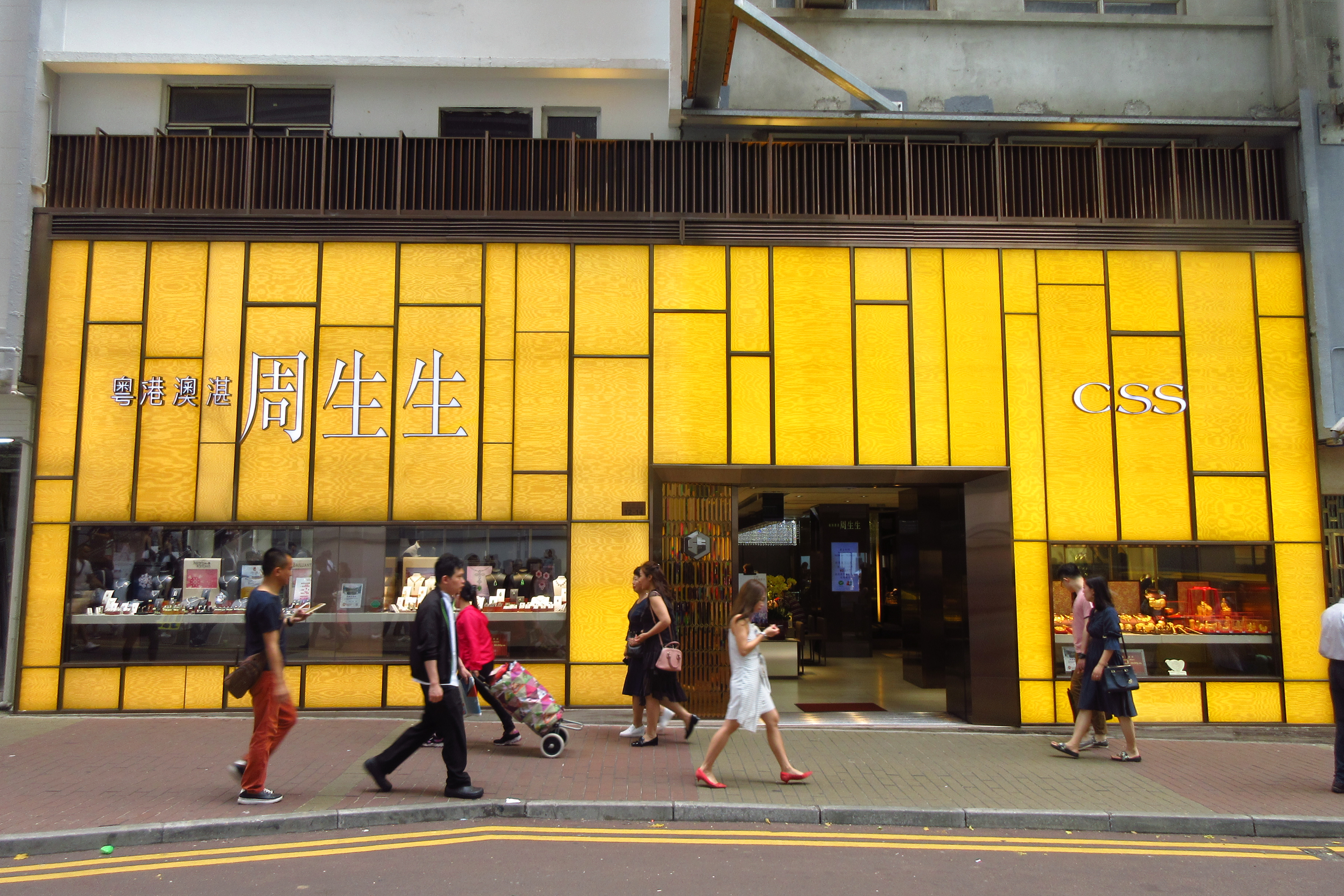 HK CWB Causeway Bay 啟超道 Kai Chiu Road in April 2018 粵港澳湛周生生 CSS Jewellery shop